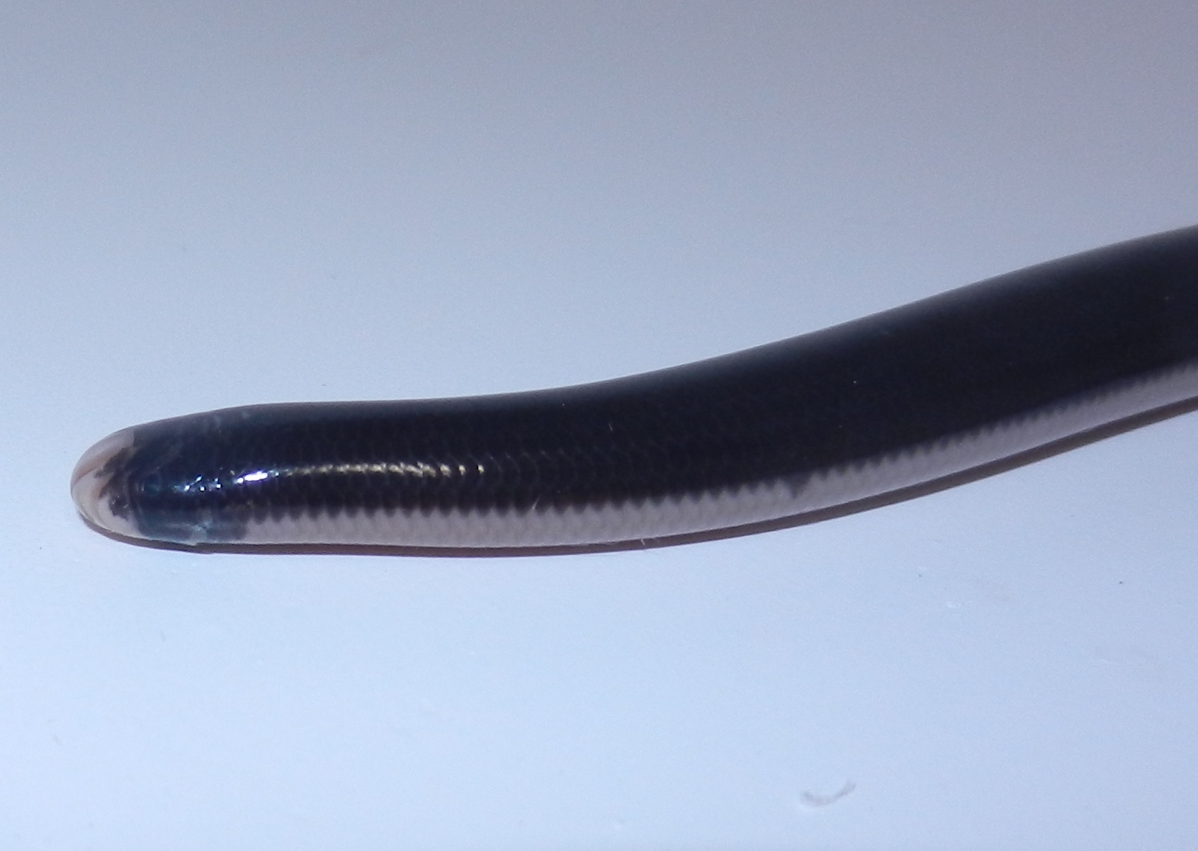 Typhlops reticulatus at the Manu Learning Center, Madre de Dios (Perú).